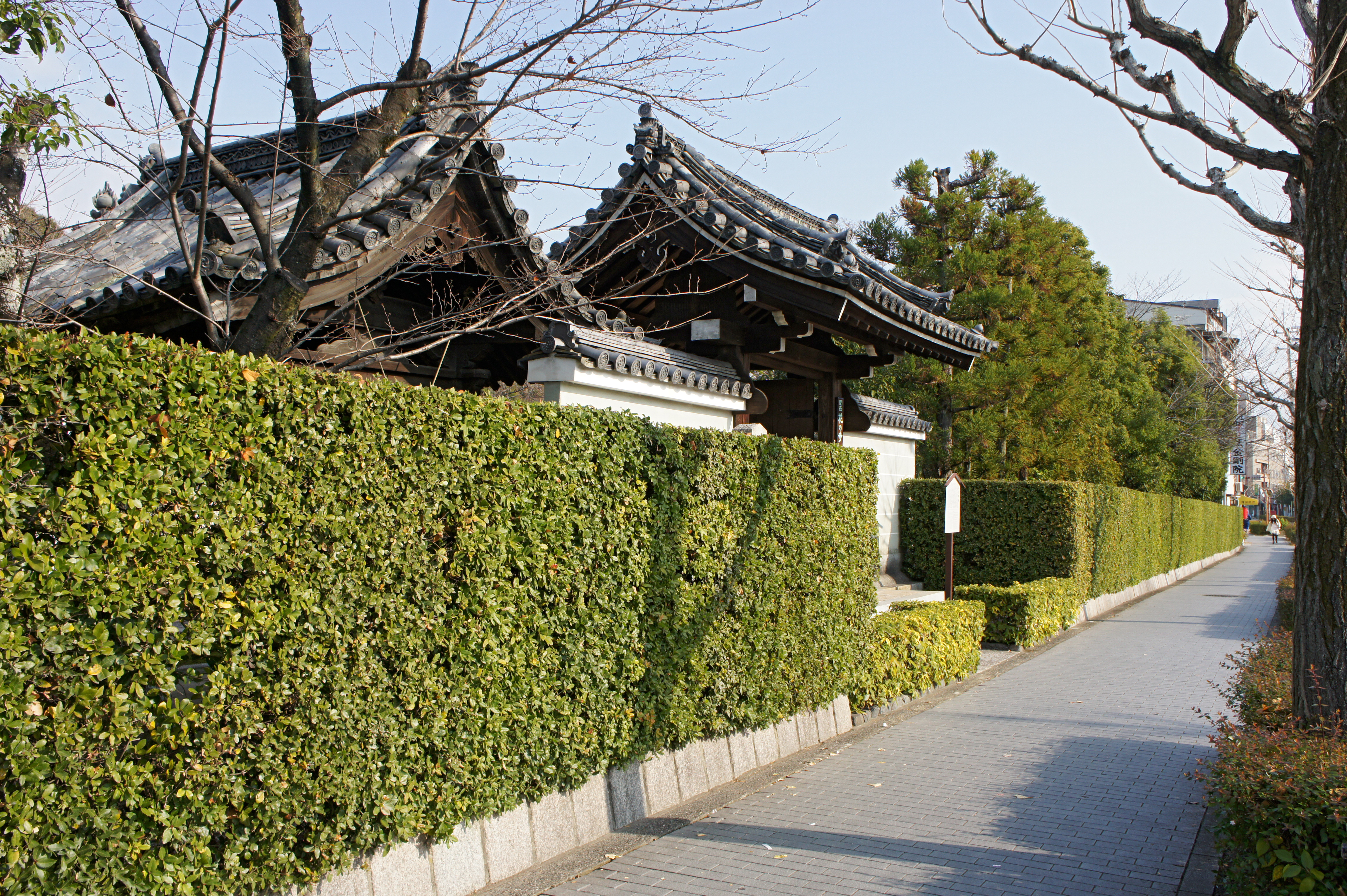 Hōkongō-in in Ukyō-ku, Kyoto, Kyoto Prefecture, Japan. Seijo-no-taki of Hōkongō-in Garden that is an extremely important cultural asset of Japan "Special Places of Scenic Beauty"